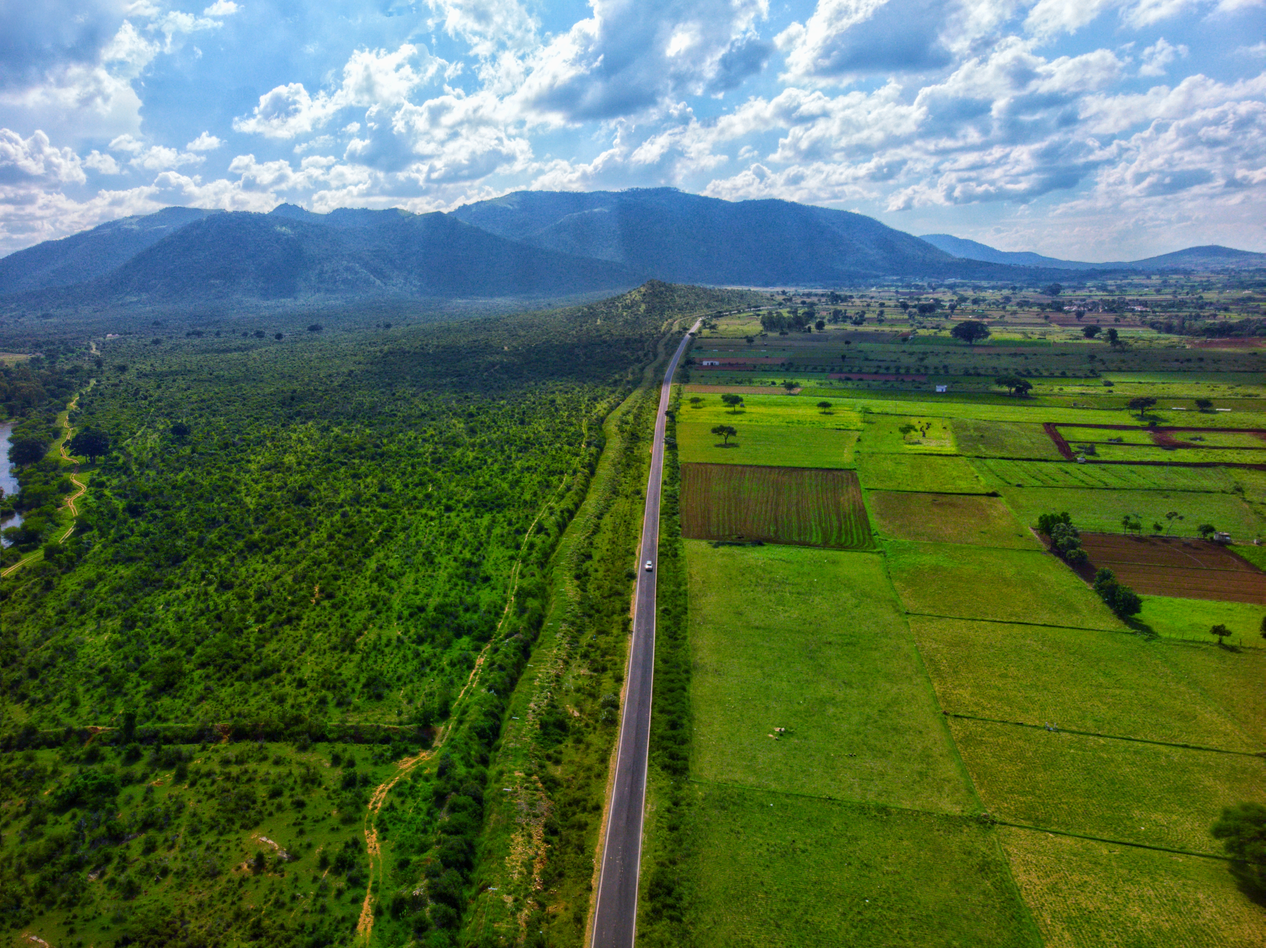 Aerial view of Himawad Gopalswamy Hills